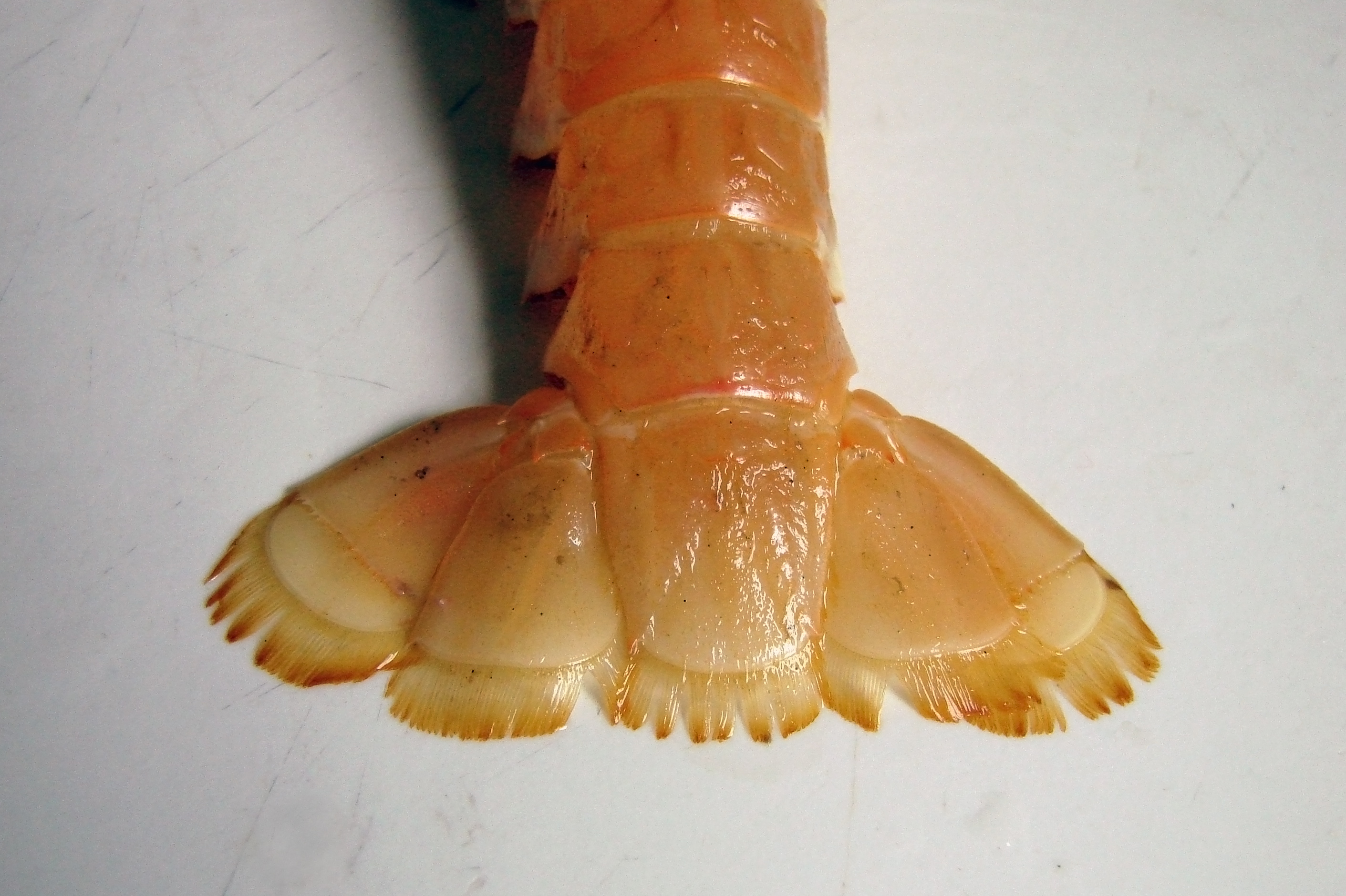 Tail of a living Norway lobster (Nephrops norvegicus).